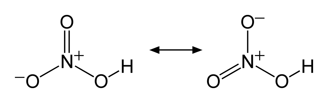 Resonance description of the bonding in the nitric acid molecule